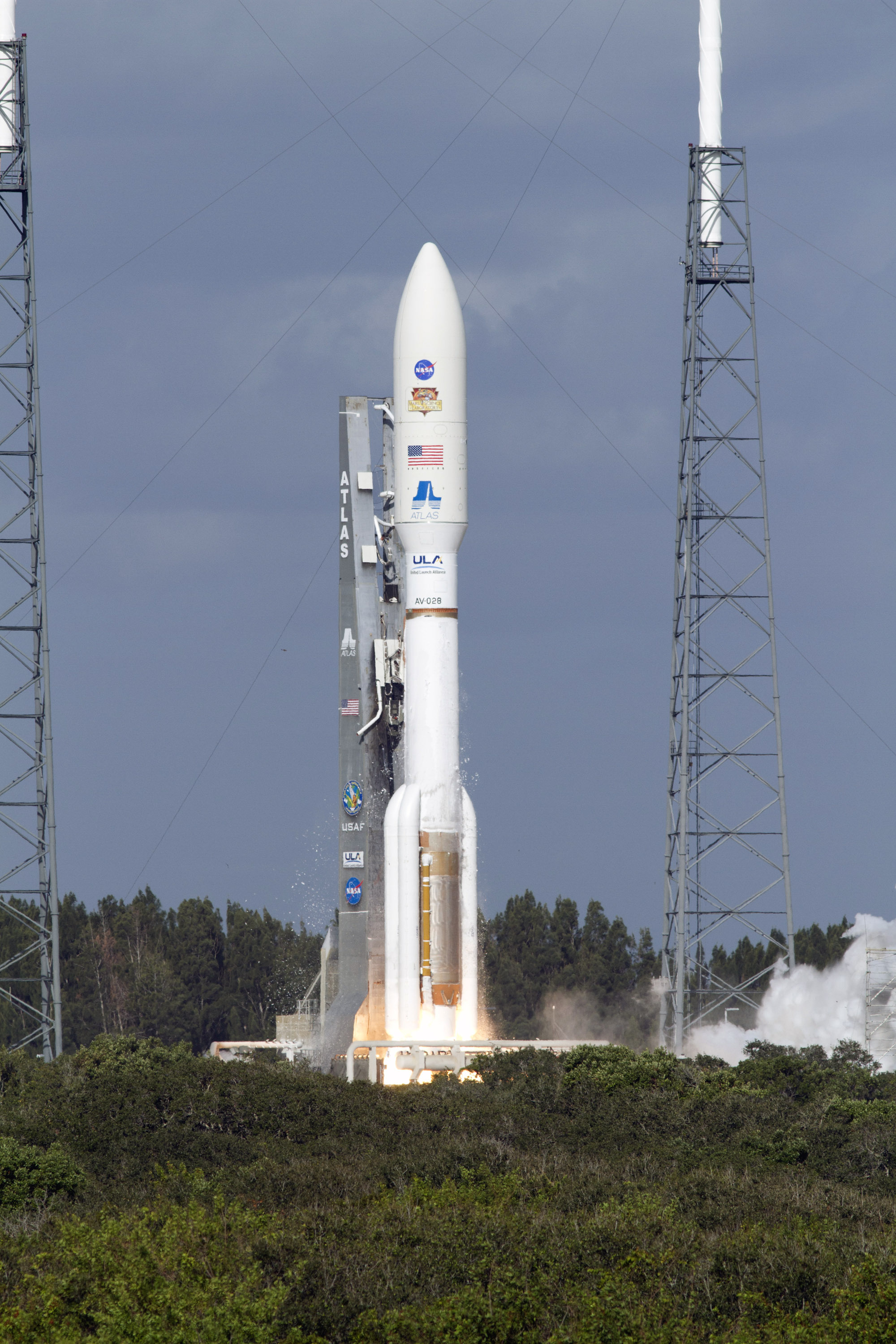 CAPE CANAVERAL, Fla. -- With NASA's Mars Science Laboratory (MSL) spacecraft sealed inside its payload fairing, the United Launch Alliance Atlas V rocket prepares to liftoff from Space Launch Complex-41 on Cape Canaveral Air Force Station in Florida at 10:02 a.m. EST Nov. 26. MSL's components include a car-sized rover, Curiosity, which has 10 science instruments designed to search for signs of life, including methane, and help determine if the gas is from a biological or geological source. For more information, visit